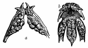 Drawing of the teeth of the lower and upper jaws of the seawolf (Anarhichas lupus).